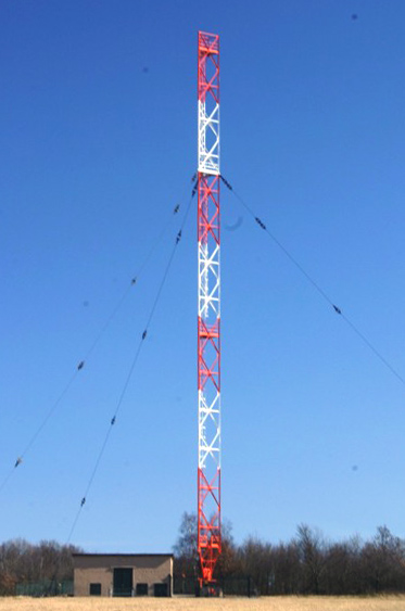 Mast of the Marnach transmitter night antenna, Luxembourg.